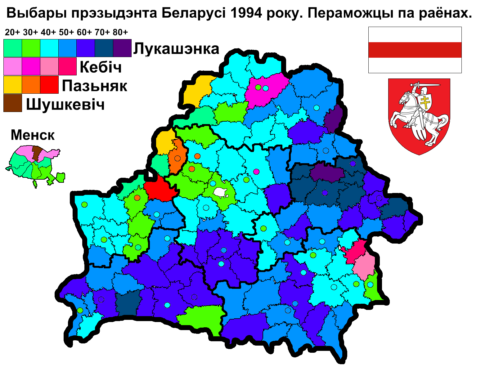 Belarusian presidential election, 1994. First round results by raions